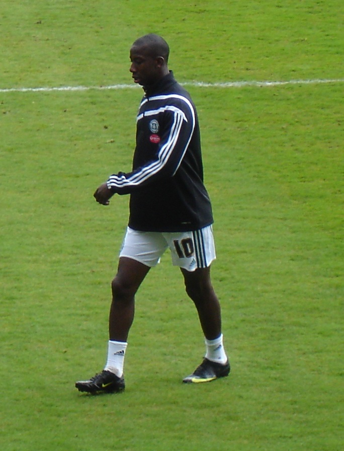 Bradley Wright-Phillips warming up before a match.